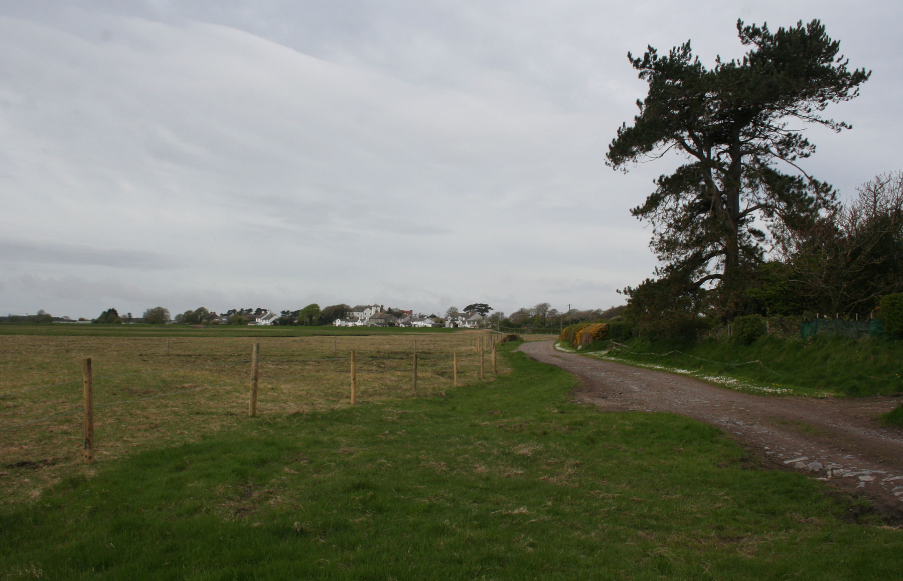 Skinburness from Grune